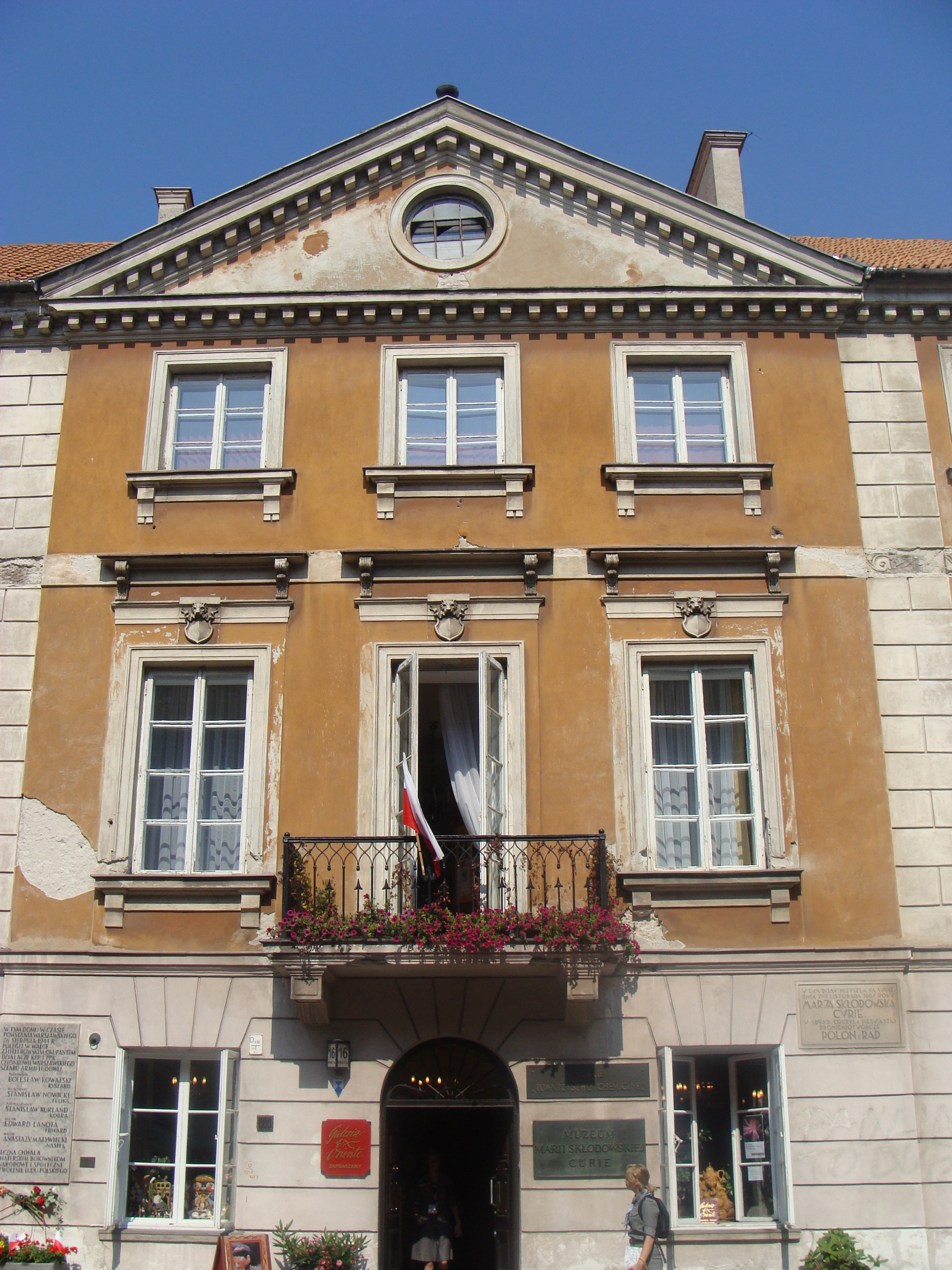 Maria Curie' s Museum in Warsaw